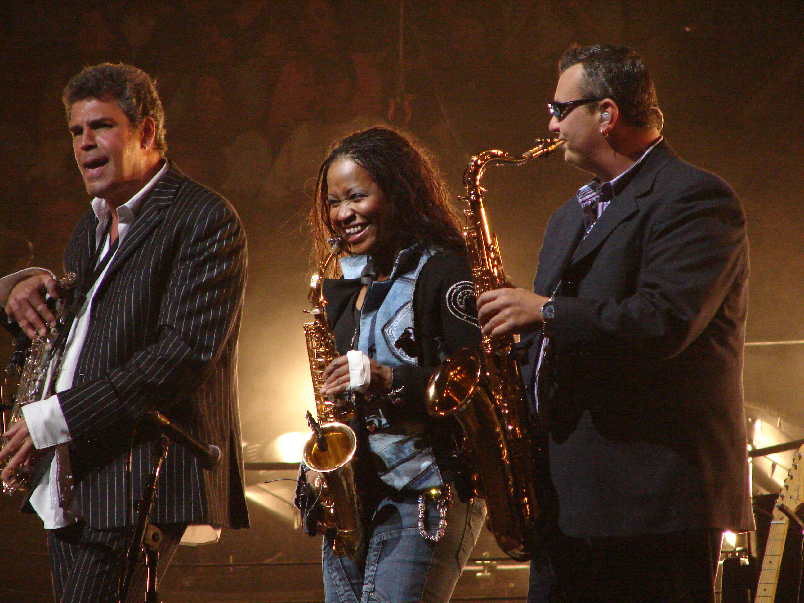 Mark Rivera, Crystal Taliefero and Carl Fischer of the Billy Joel Band performing on 4 May 2007 in Auburn Hills, Michigan, The Palace Of Auburn Hills